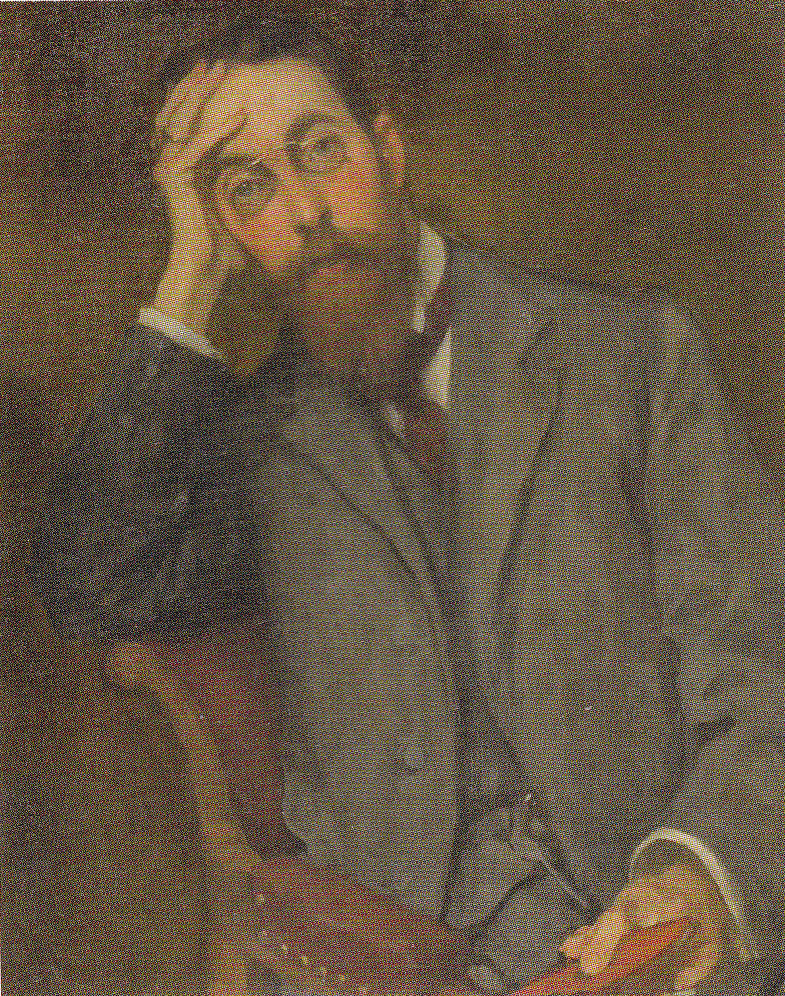 Portrait painting of Dutch author Herman Robbers (1868-1937) by Jac. van Looy. Portrait Collection Reed Elsevier. On permanent display at Letterkundig Museum, The Hague, the Netherlands